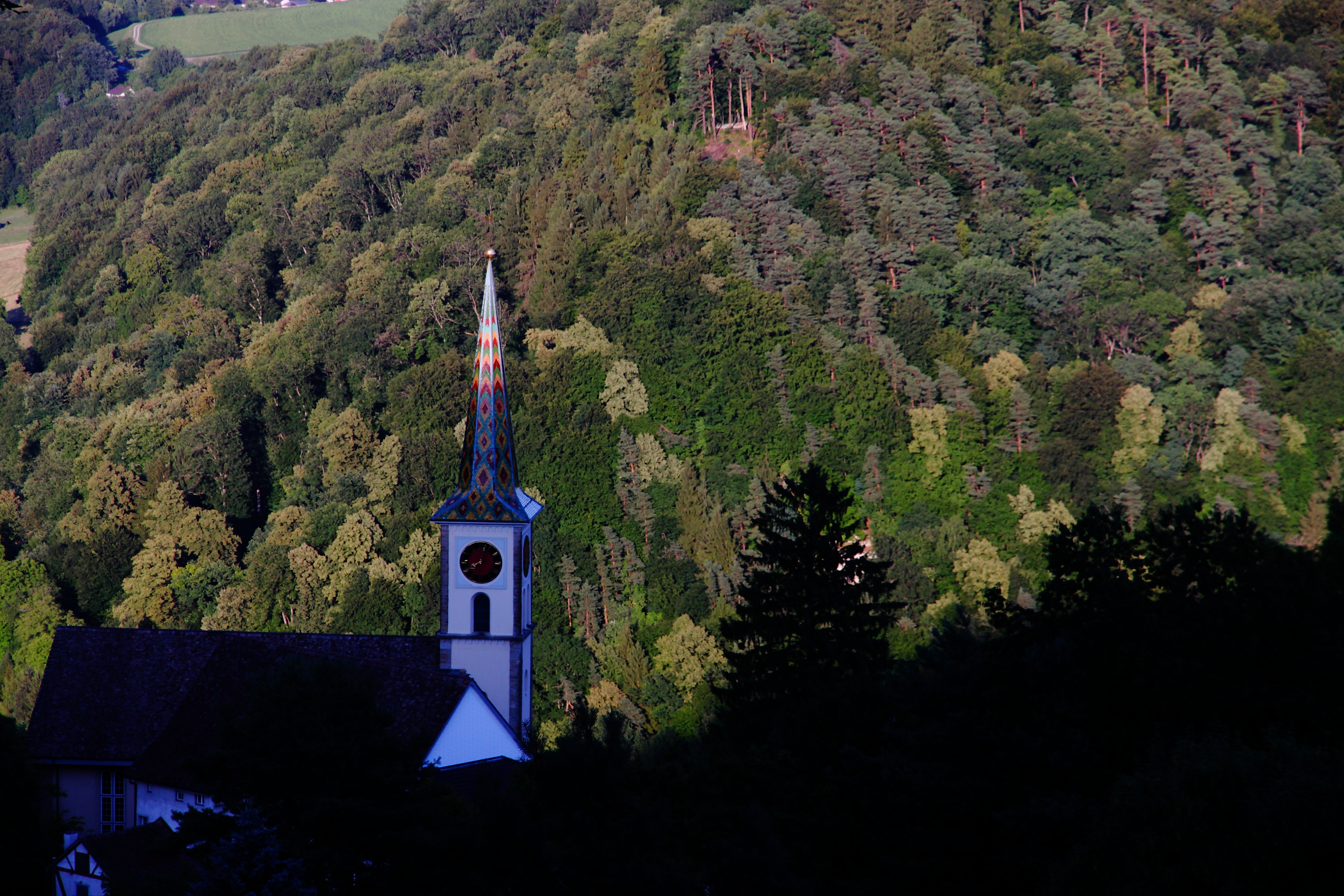 The catholic church of Buchberg, Schaffhausen, Switzerland